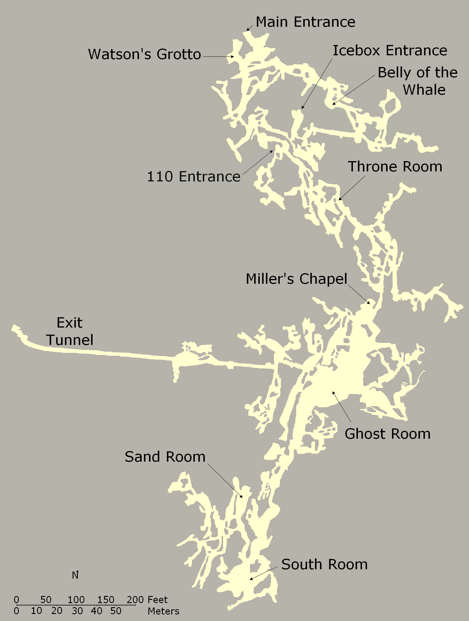 Based on a map, "Oregon Cave Climate Monitoring Sites" in "Monitoring Cave Entrance Communities and Cave Environments in the Klamath Network" by Shawn Thomas of the National Park Service, May 2010, p. 8. Printed, scanned, and modified by User:Finetooth.